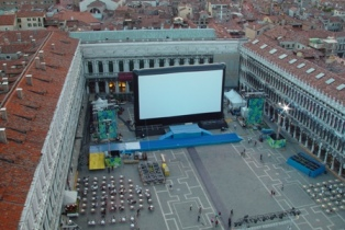 World Premiere of "Shark Tale" with an AIRSCREEN.